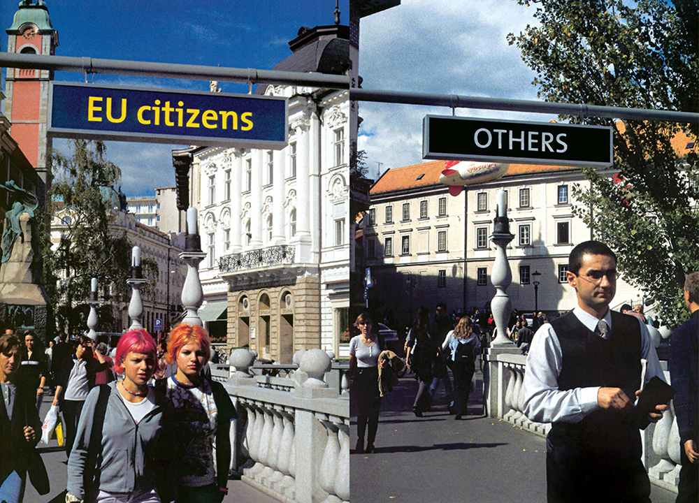 Šejla Kamerić, EU/Others, 2000, Triple Bridge Ljubljana, Slovenia.